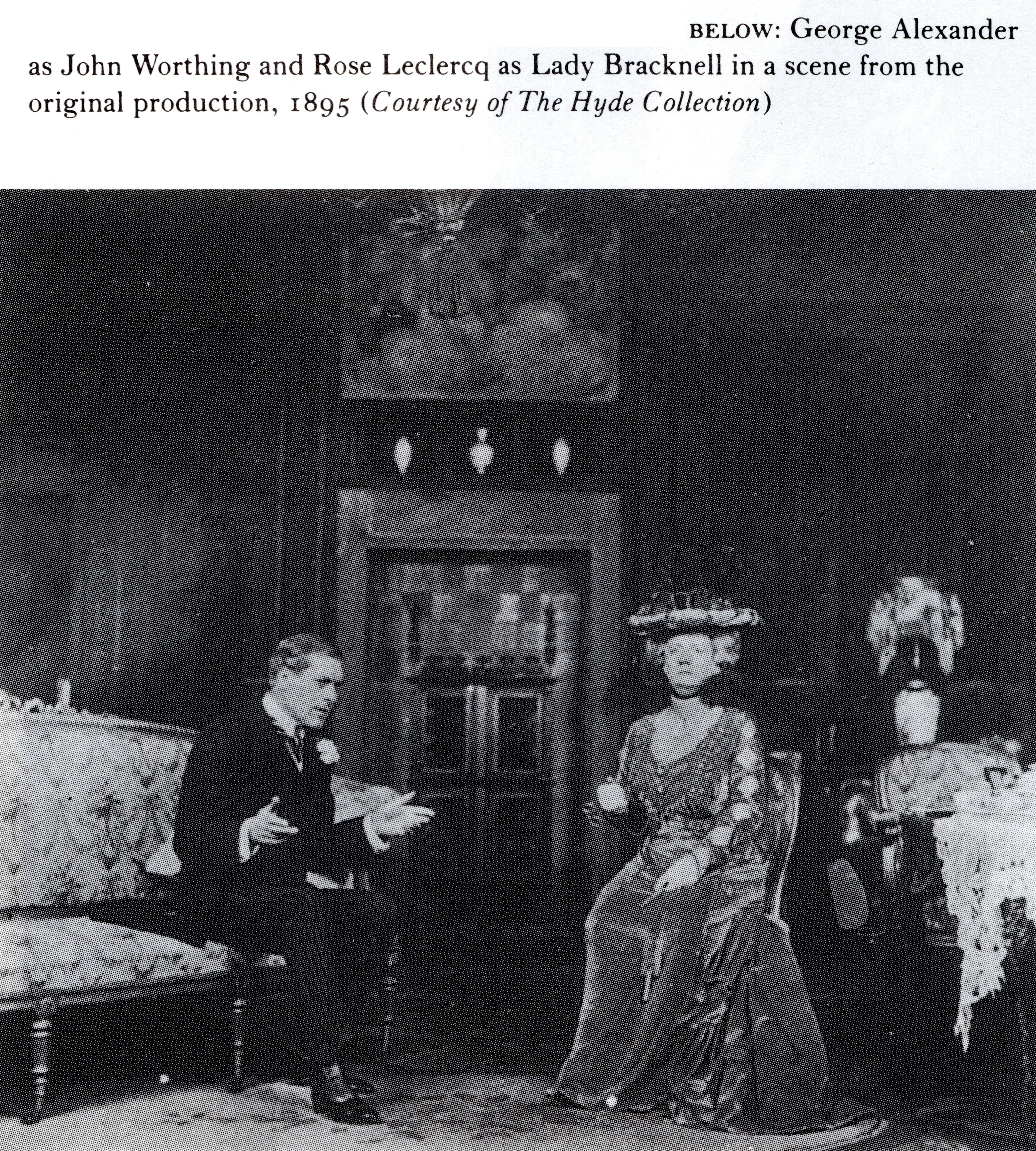 The Importance of Being Earnest (1895) George Alexander and Rose Leclercq